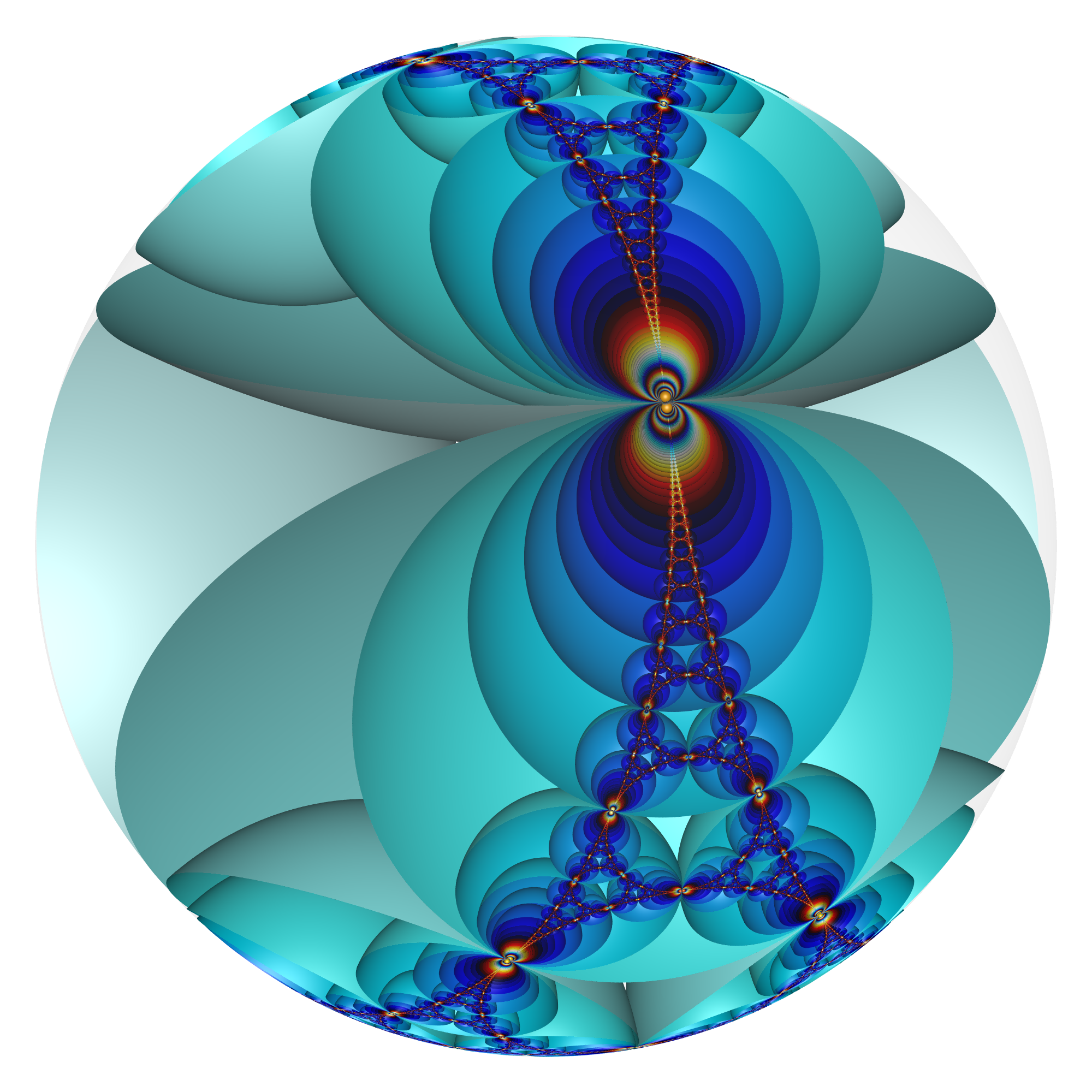 Regular, hyperideal {3,3,infinity} honeycomb in hyperbolic 3-space, shown cell-centered in the Poincaré ball model.